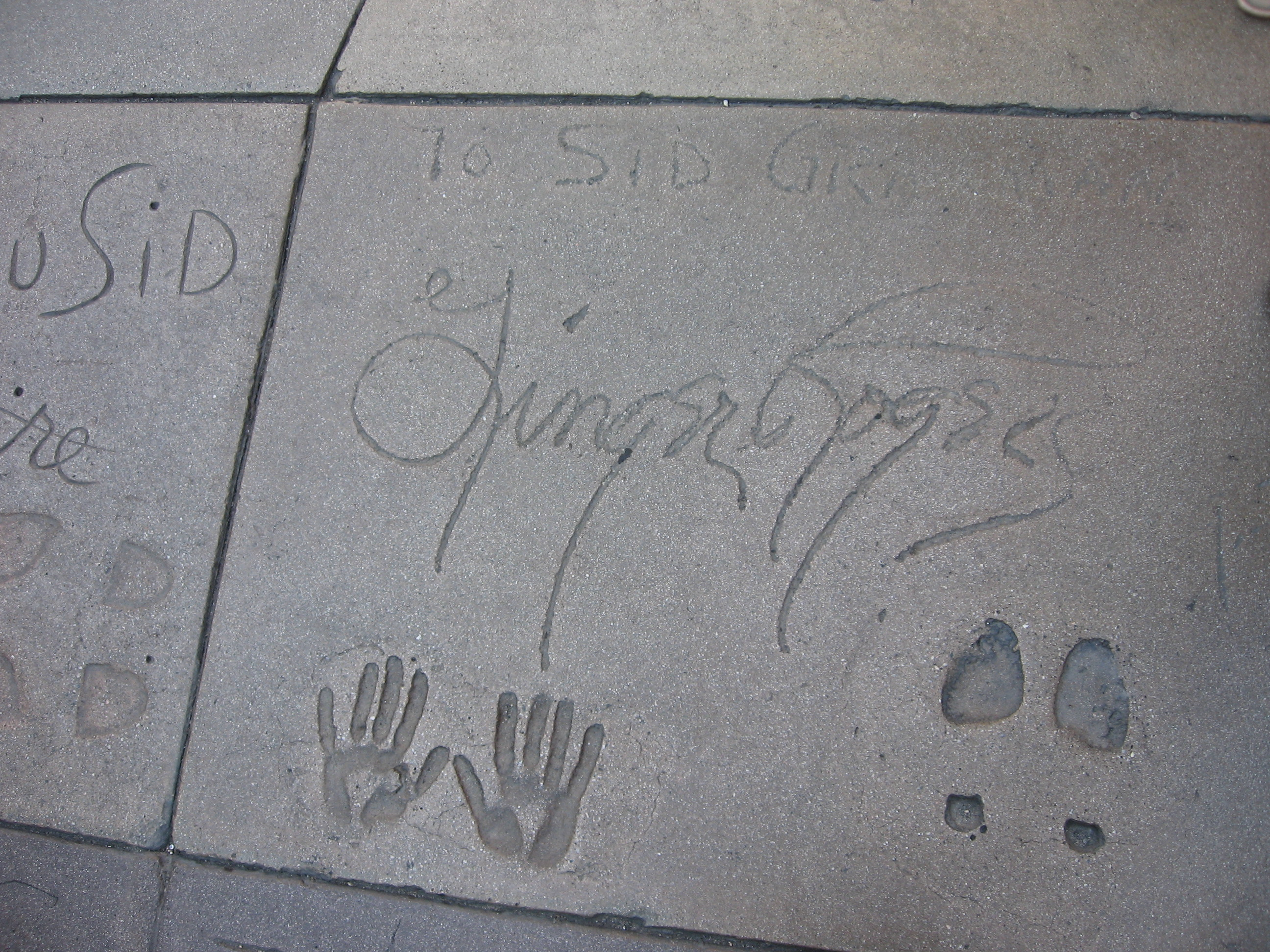 A picture I take of Ginger Rogers' hand and foot prints at Grauman's Chinese Theatre. Taken on September 3, 2007.